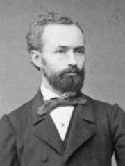 Iosif Hodoș in the 1860s